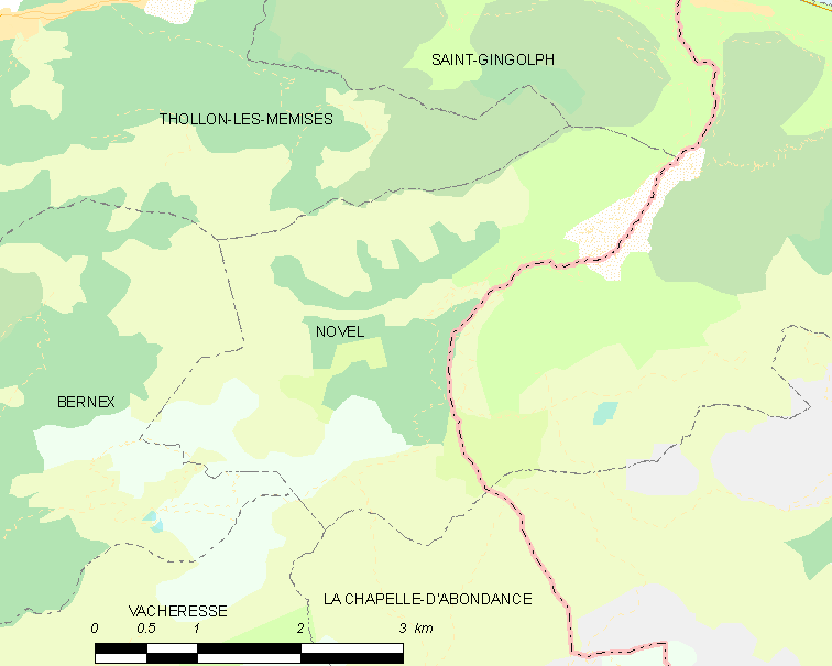 Map of French municipality Novel